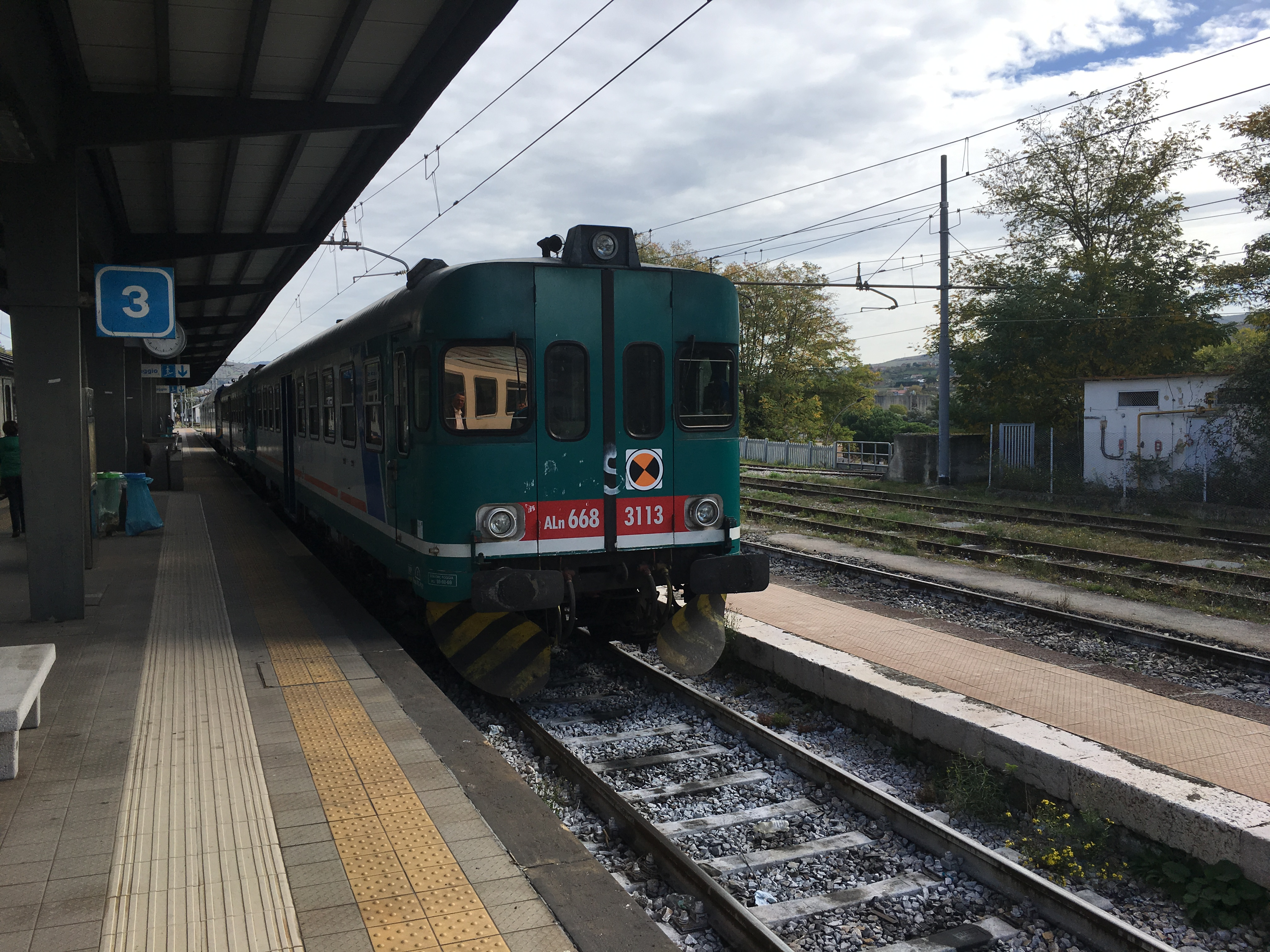 FS ALn 668 3113 on 18th October 2016 in Potenza Centrale RFI railway station